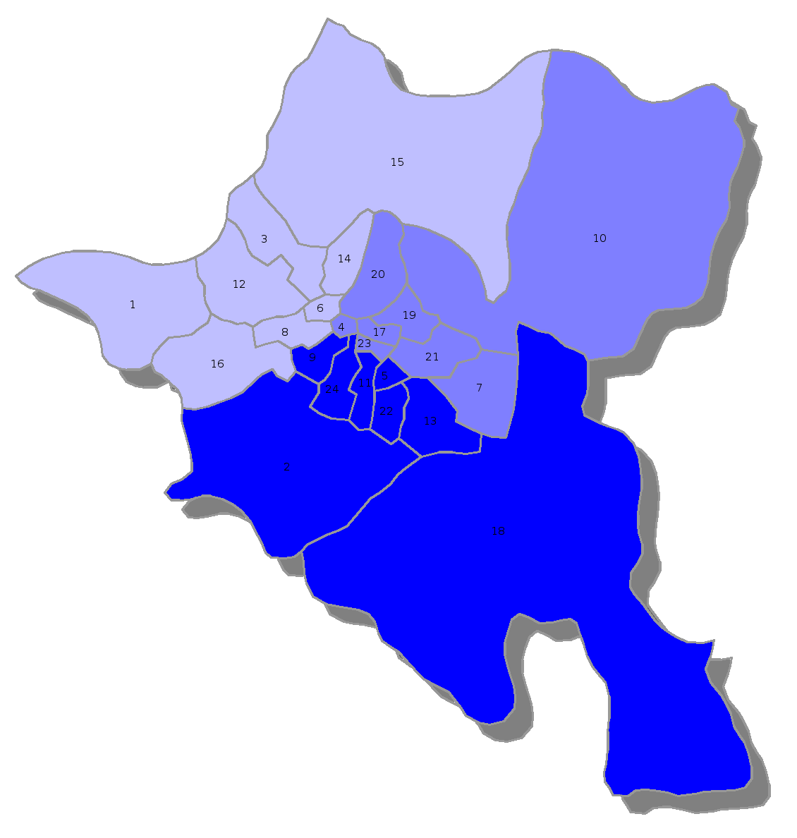 Map of Sofia, Bulgaria with Electoral regions (colored) and Administrative regions (numbered).